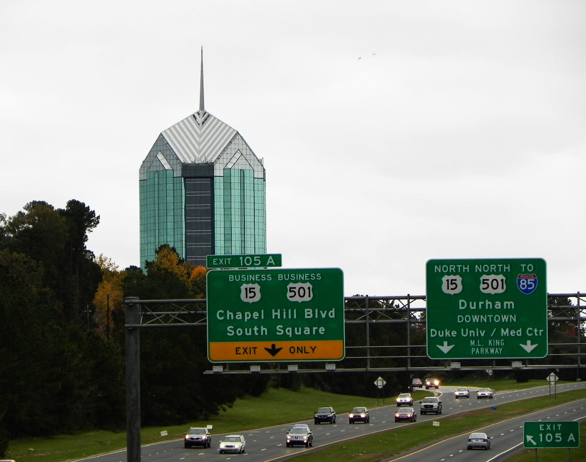 University Tower is the tallest building in Durham located outside of the downtown area.